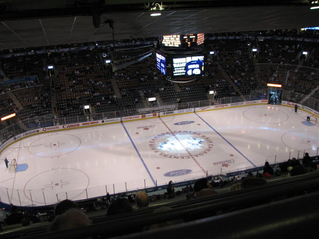 View from the back row (standing room) of section 322 at the Air Canada Centre in Toronto, Ontario before a Toronto Maple Leafs game.